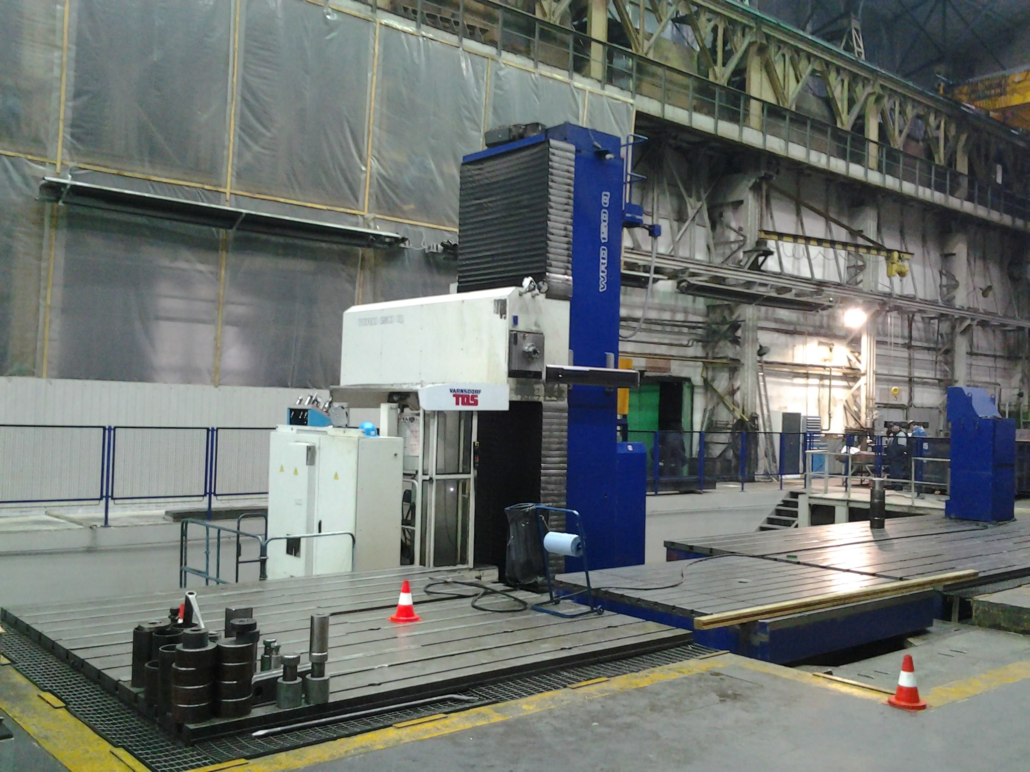 Horizontal boring machine, floor type TOS WRD